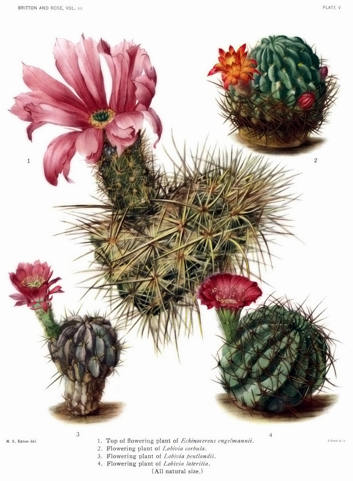 1. Top of flowering plant of Echinocereus engelmannii 2. Flowering plant of Lobivia corbula (Lobivia maximiliana var. corbula) 3. Flowering plant of Lobivia pentlandii (Syn: Echinopsis pentlandii) 4. Flowering plant of Lobivia lateritia (Syn: Echinopsis lateritia)